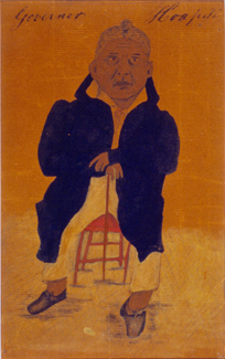 Hoapili-kane, watercolor depiction by C. C. Armstrong. Bishop Museum.